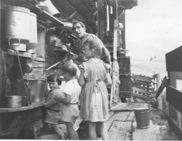 Milk processing at a small farm in Oberlech, Vorarlberg, Austria for supply to the local hotels.